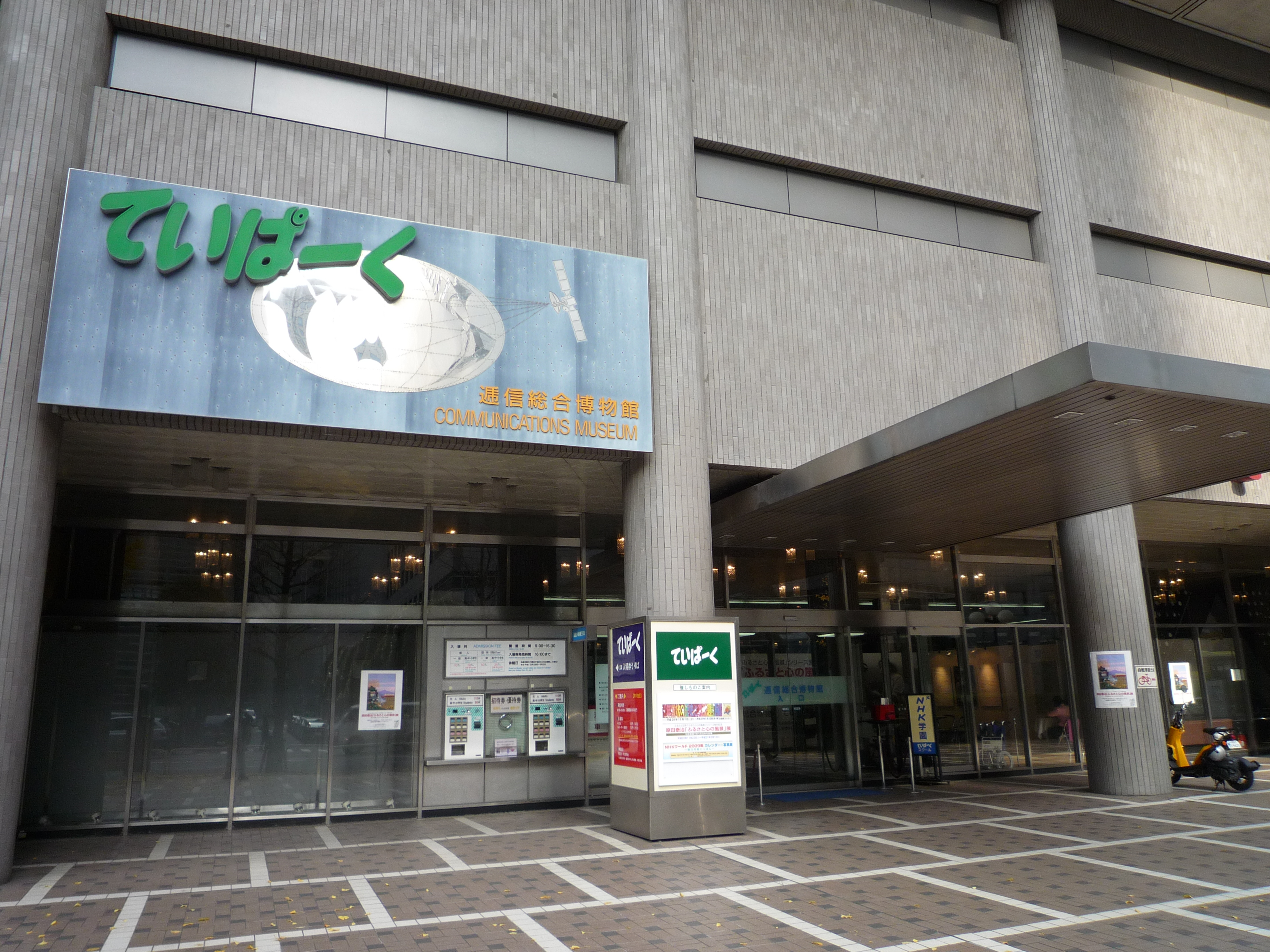 Main entrance of Communications Museum in Tokyo.